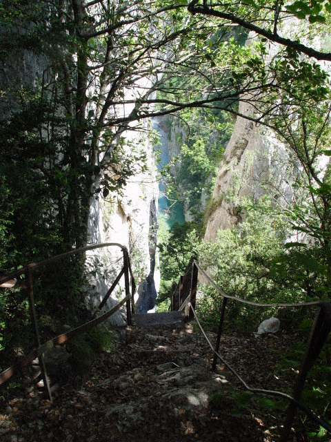 The scales Imbert. Downwards, the Verdon river.